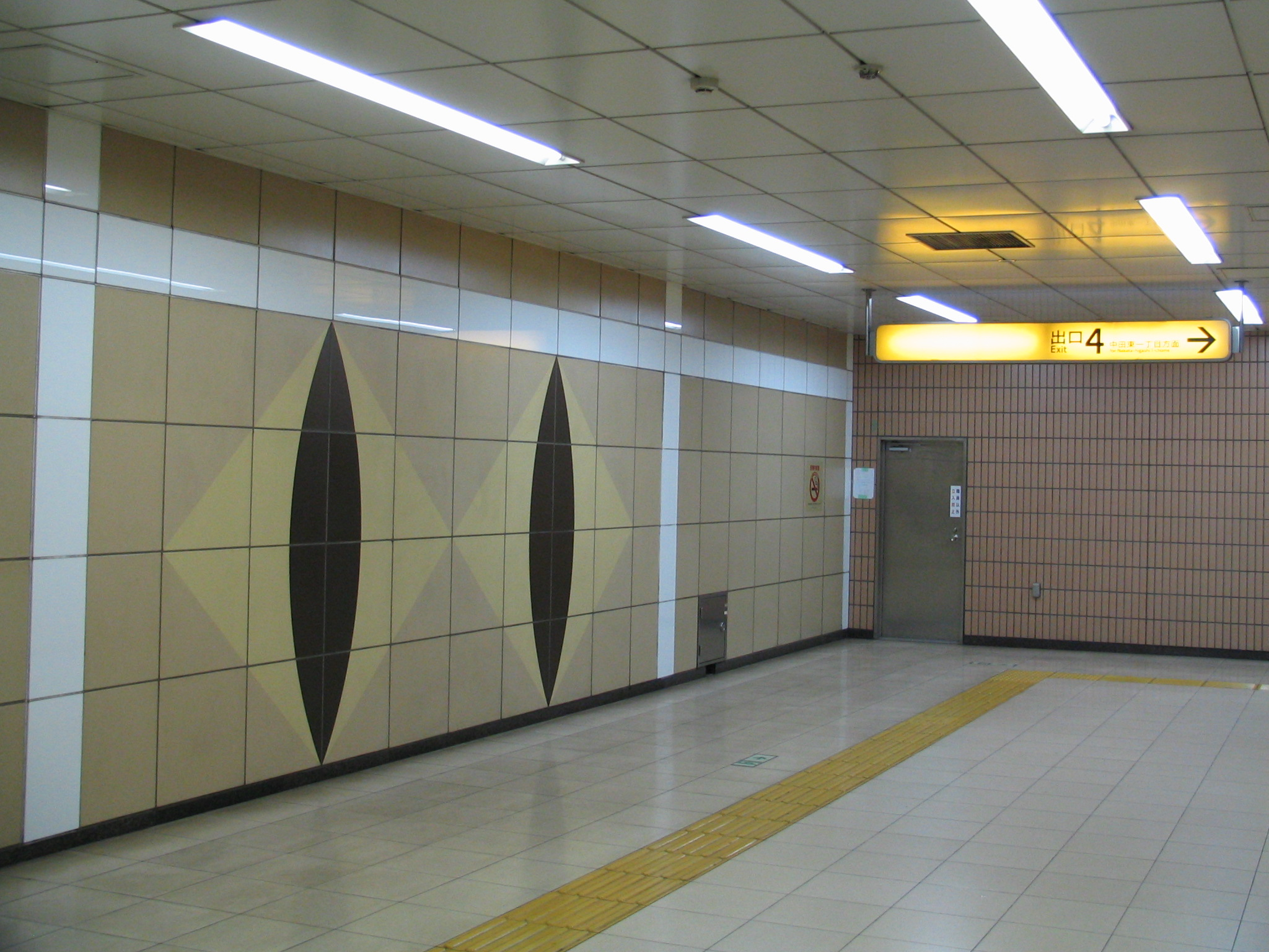 横浜市営地下鉄ブルーライン踊場駅の猫の目を表したモニュメント The monument which showed the eyes of the cat in Odoriba Station (Yokohama Subway).